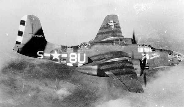 Douglas A-20J-15-DO Havoc Serial 43-21745 of the 646th Bombardment Squadron, 410th Bomb Group, based at RAF Gosfield, England.